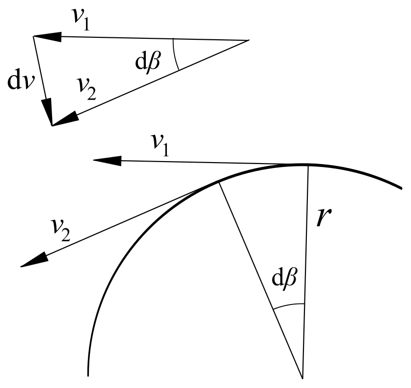 Angular velocity